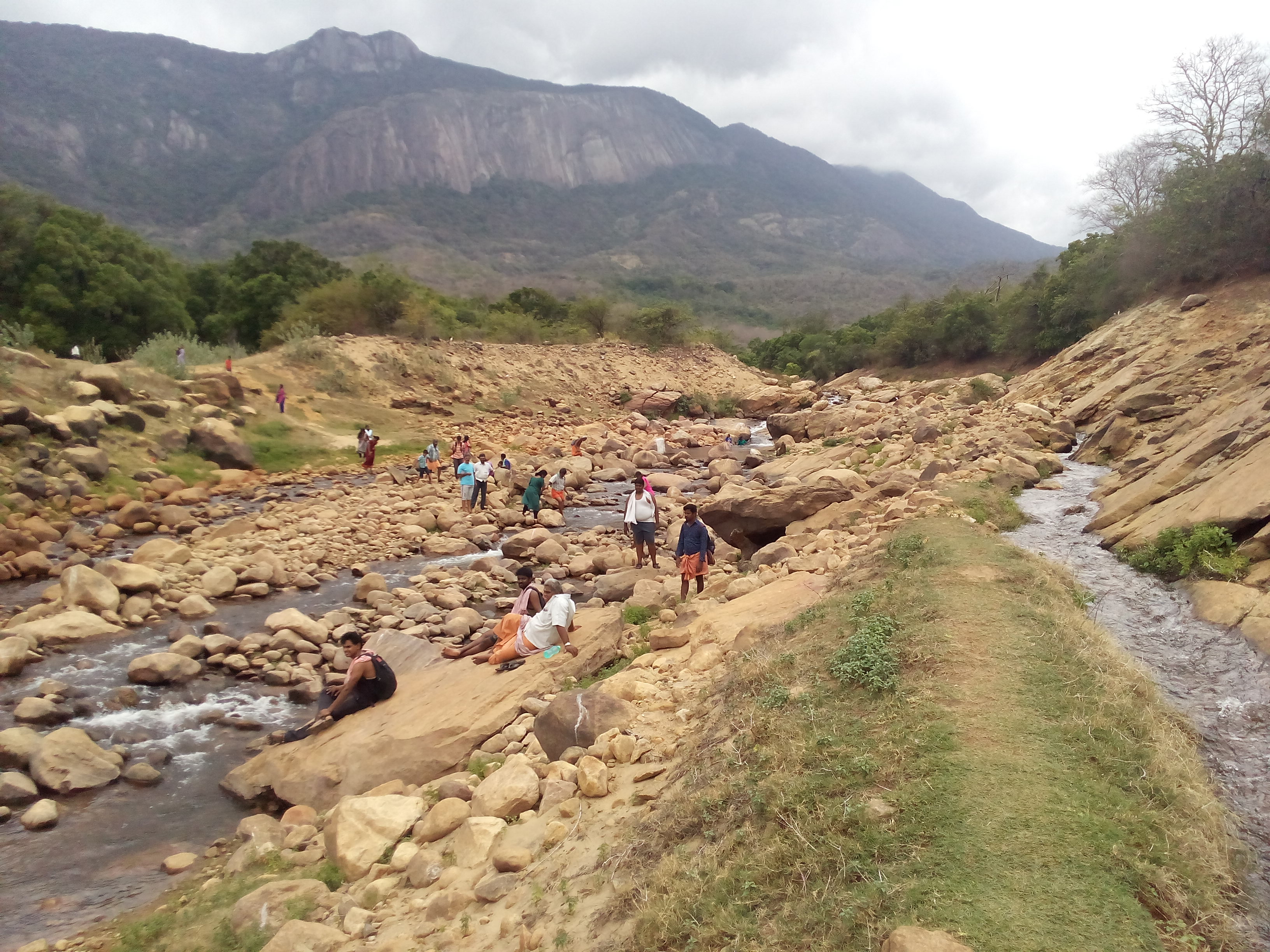 வற்றாத ஆறு